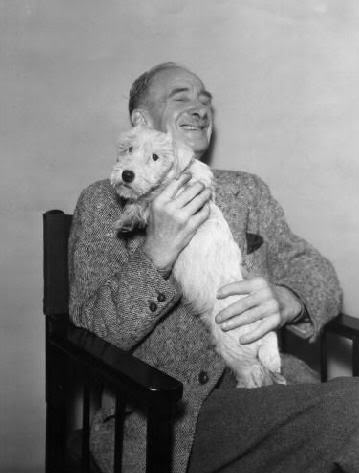 Cecil Aldin & friend